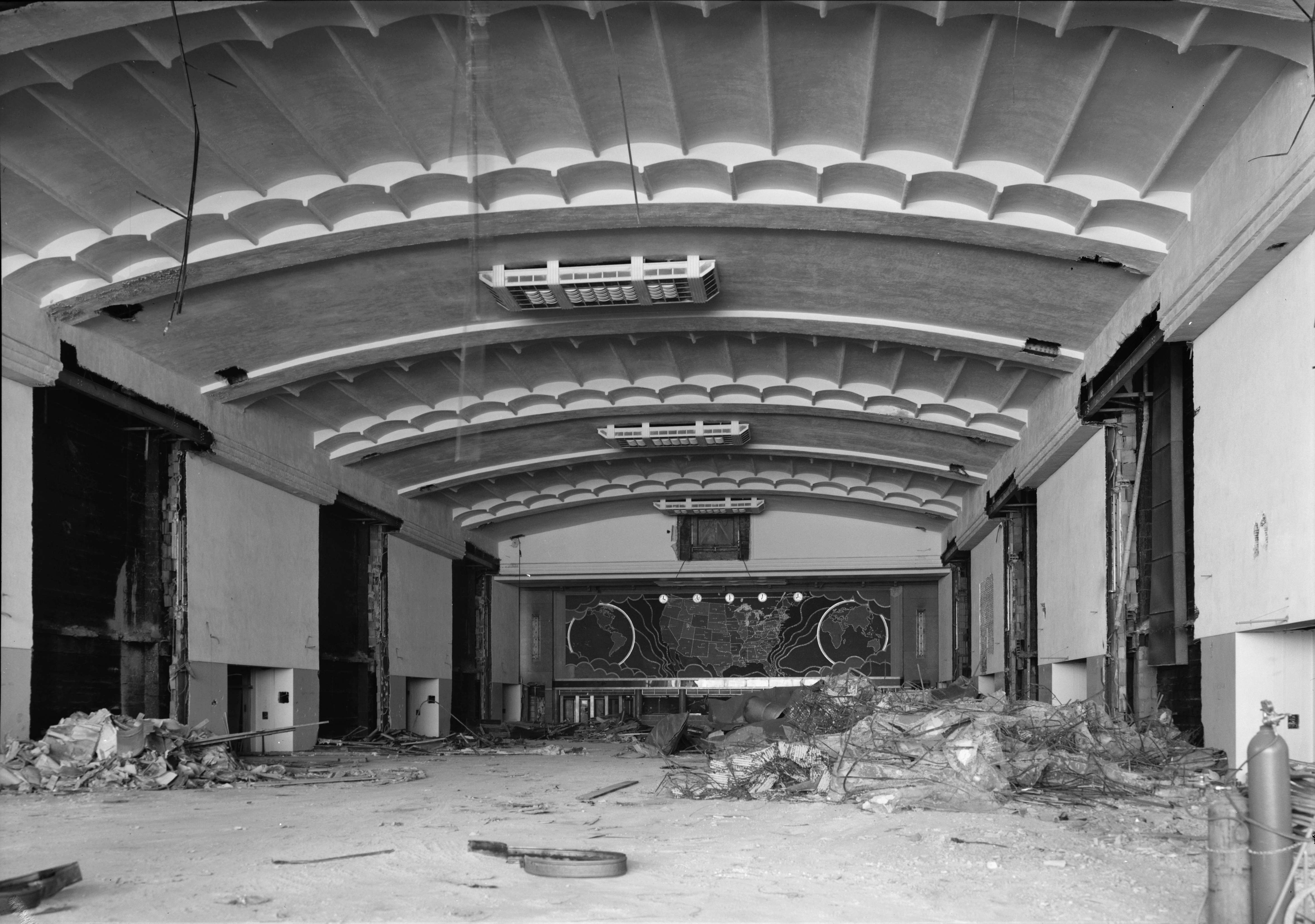 Cropped border jpg copy of File:GENERAL INTERIOR VIEW OF CONCOURSE PRIOR TO DEMOLITION - Cincinnati Union Terminal, 1301 Western Avenue, Cincinnati, Hamilton County, OH HABS OHIO,31-CINT,29-52.tif.